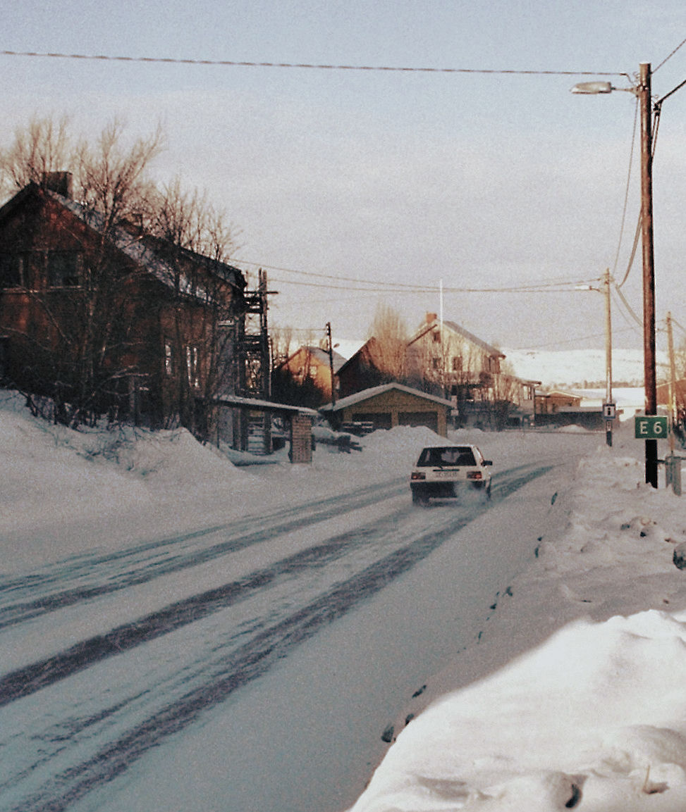 The E6 in Kirkenes